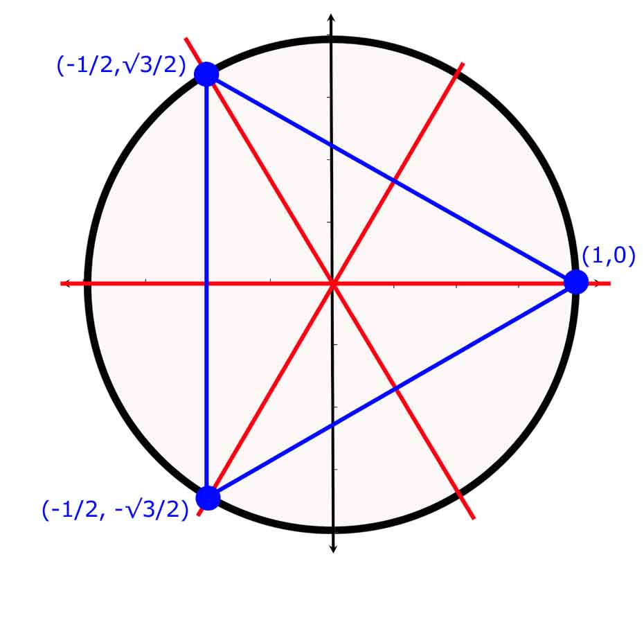 Schema to illustrate S3 group representation, it represents all triangle's isometries (Wikipedia France)